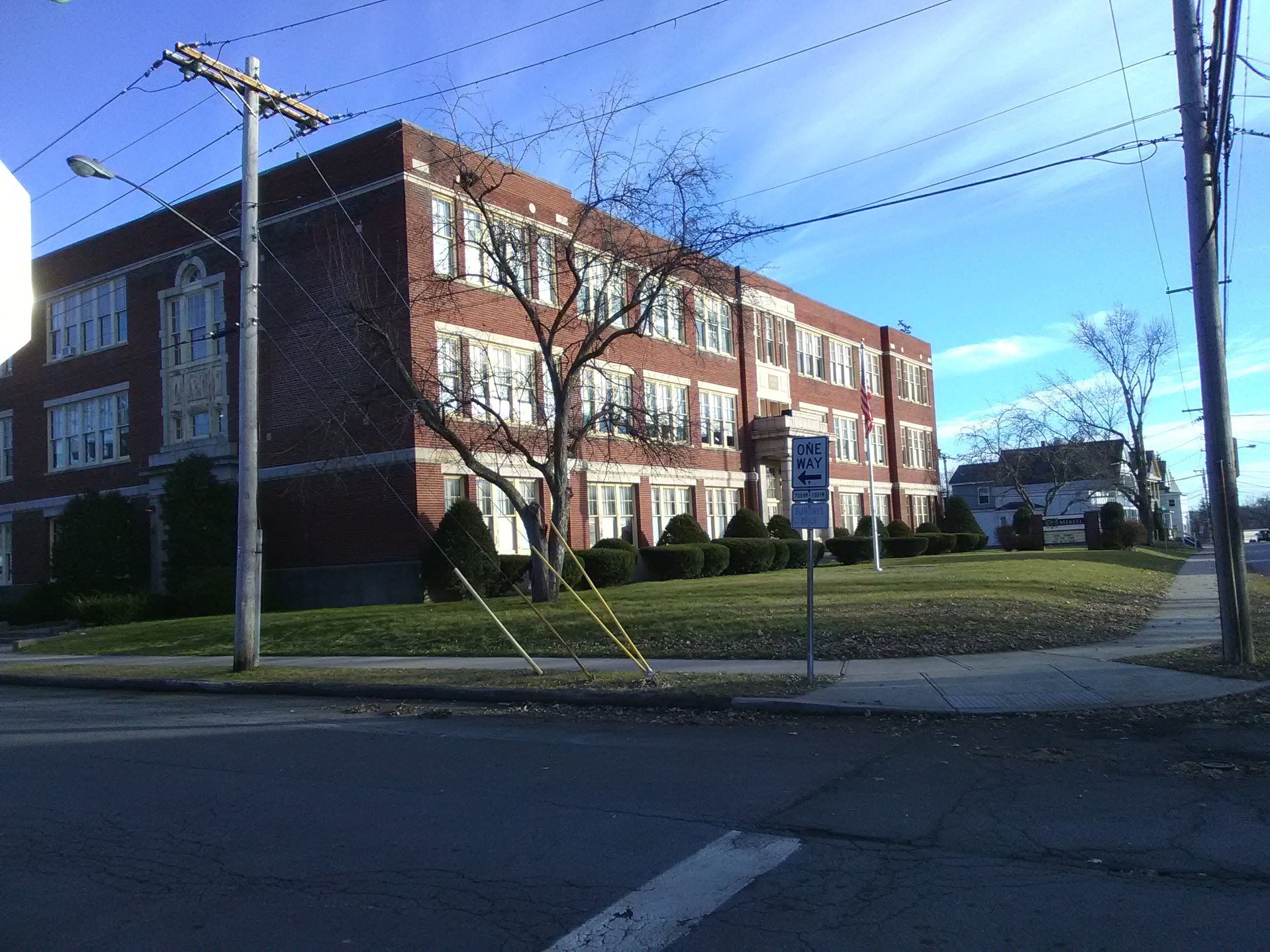 A photograph of Mekeel Christian Academy, formerly Scotia High School, taken in late 2019.